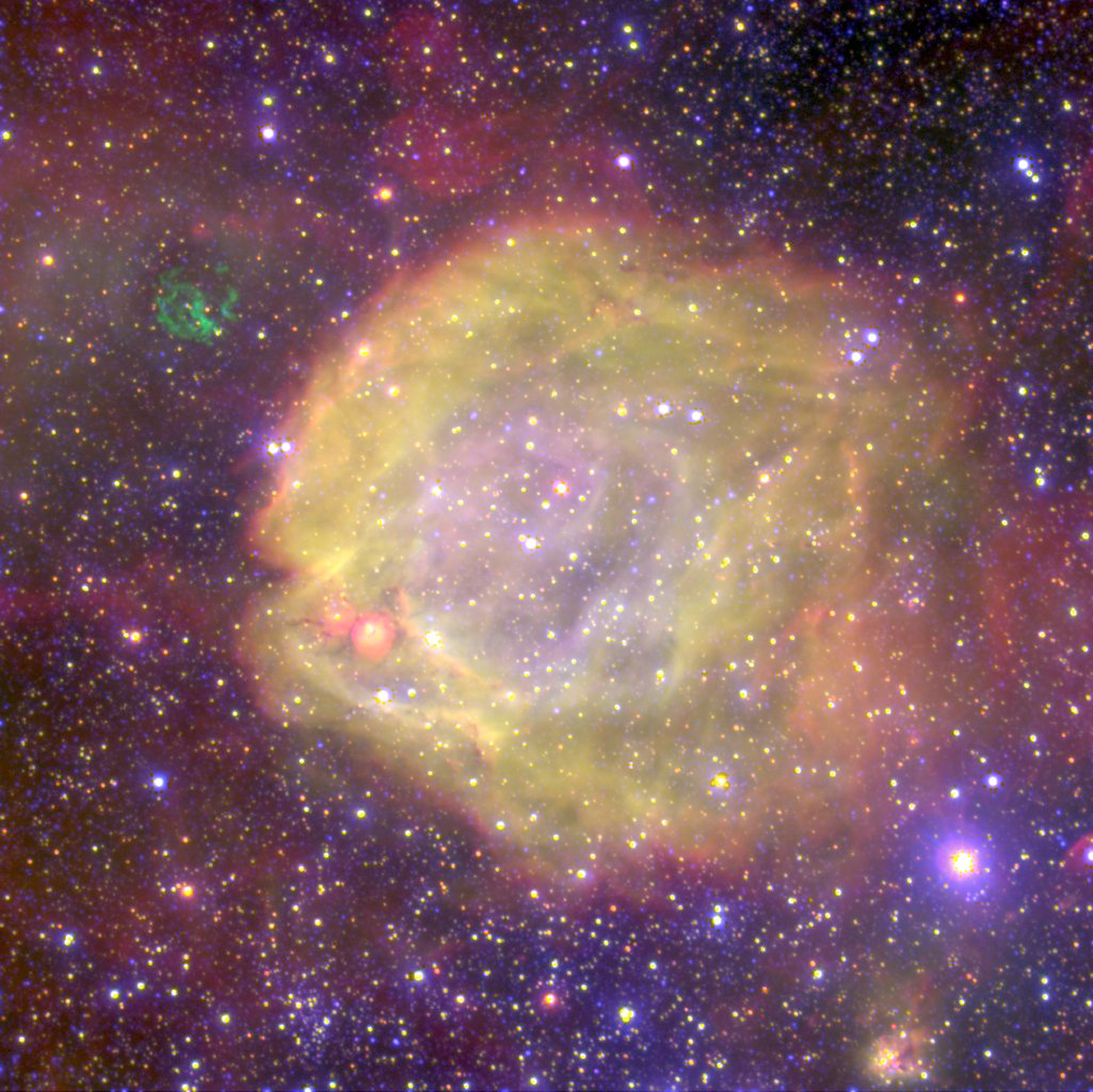 This unique image shows AB7, one of the highest excitation nebulae in the Magellanic Clouds (MCs), two satellite galaxies of our own Milky Way. AB7 is a binary star, consisting of one WR-star — highly evolved massive star - and a mid-age massive companion of spectral type O. These exceptional stars have very strong stellar winds: they continuously eject energetic particles — like the "solar wind" from the Sun — but some 10 to 1,000 million times more intensely than our star! These powerful winds exert an enormous pressure on the surrounding interstellar material and forcefully shape those clouds into "bubbles", well visible in the photos by their blue colour. AB7 is particularly remarkable: the associated huge nebula and HeII region indicate that this star is one of the, if not the, hottest WR-star known so far, with a surface temperature in excess of 120,000 degrees ! Just outside this nebula, a small network of green filaments is visible — they are the remains of another supernova explosion. Credit: ESO About the Object Name: LHA 115-N 76A Type: • Local Universe : Star : Grouping : Binary • Local Universe : Nebula • Nebulae Distance: 180000 light years Colours & filters Band Telescope Optical HeIII Very Large Telescope FORS1 Optical OIII Very Large Telescope FORS1 Optical H-I Very Large Telescope FORS1 .